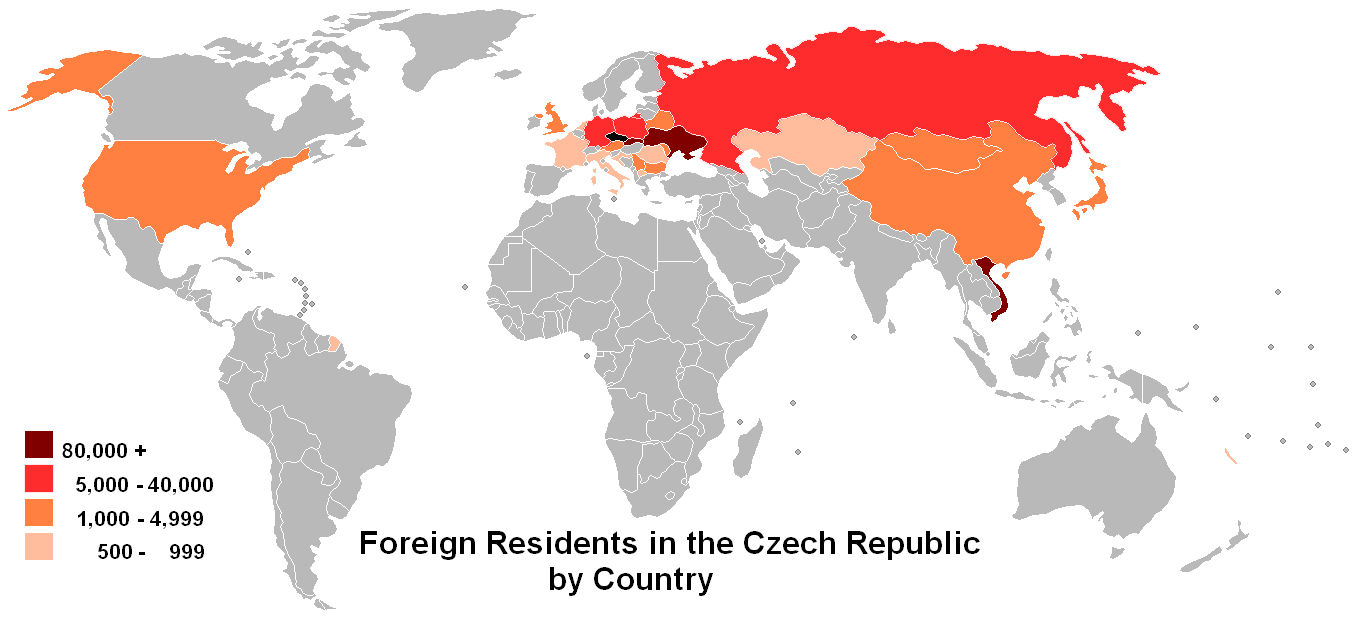 "long term" foreigners in the Czech Republic, as defined by the Czech Directorate of Alien and Border Police